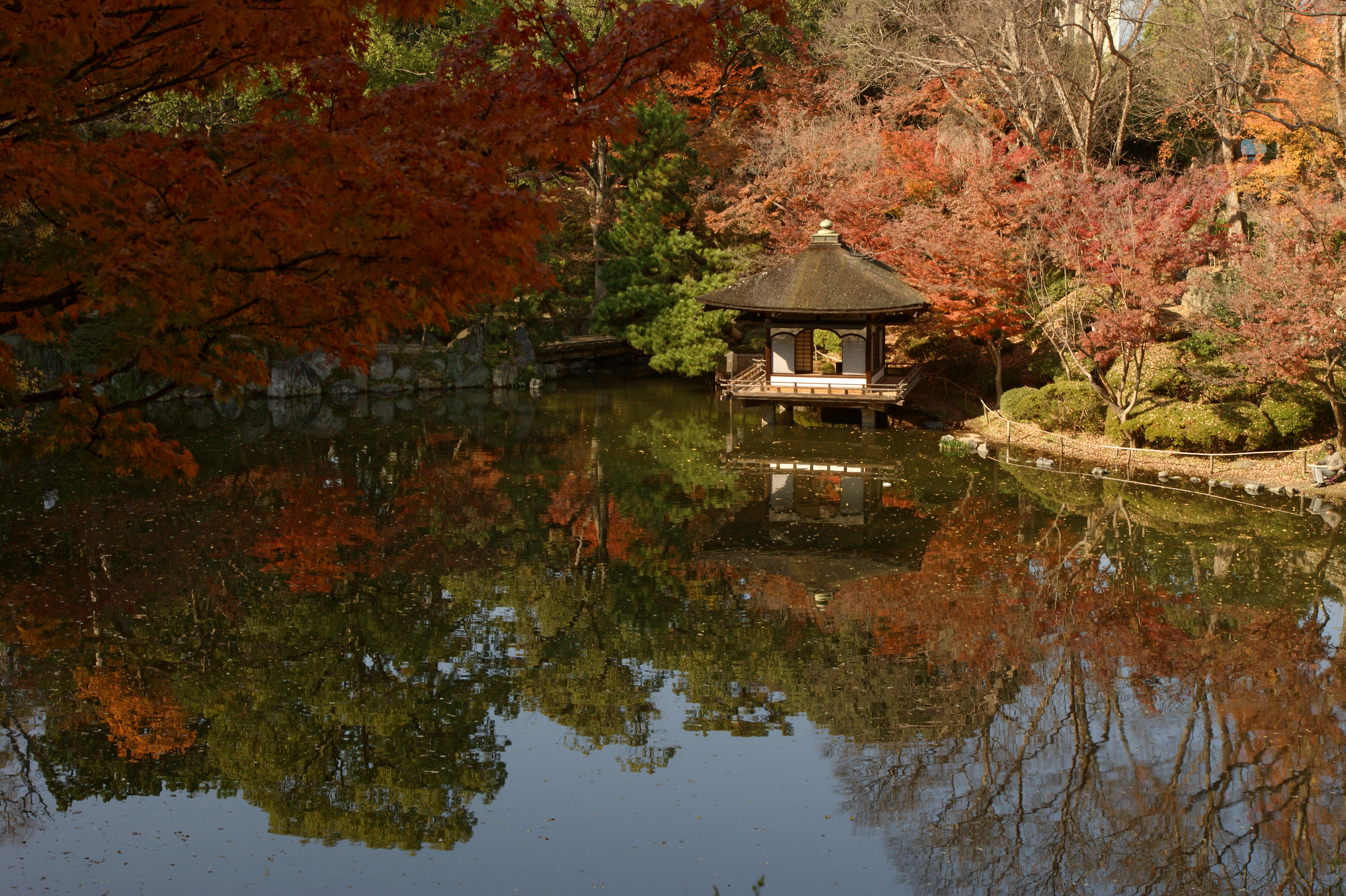 Wakayama Castle Nishinomaru Garden, Wakayama, Wakayama prefecture, Japan